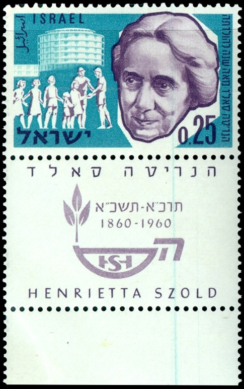 Israeli postage stamp sommemorating 100th anniversary of Henrietta Szold - 0.25 Israeli lira